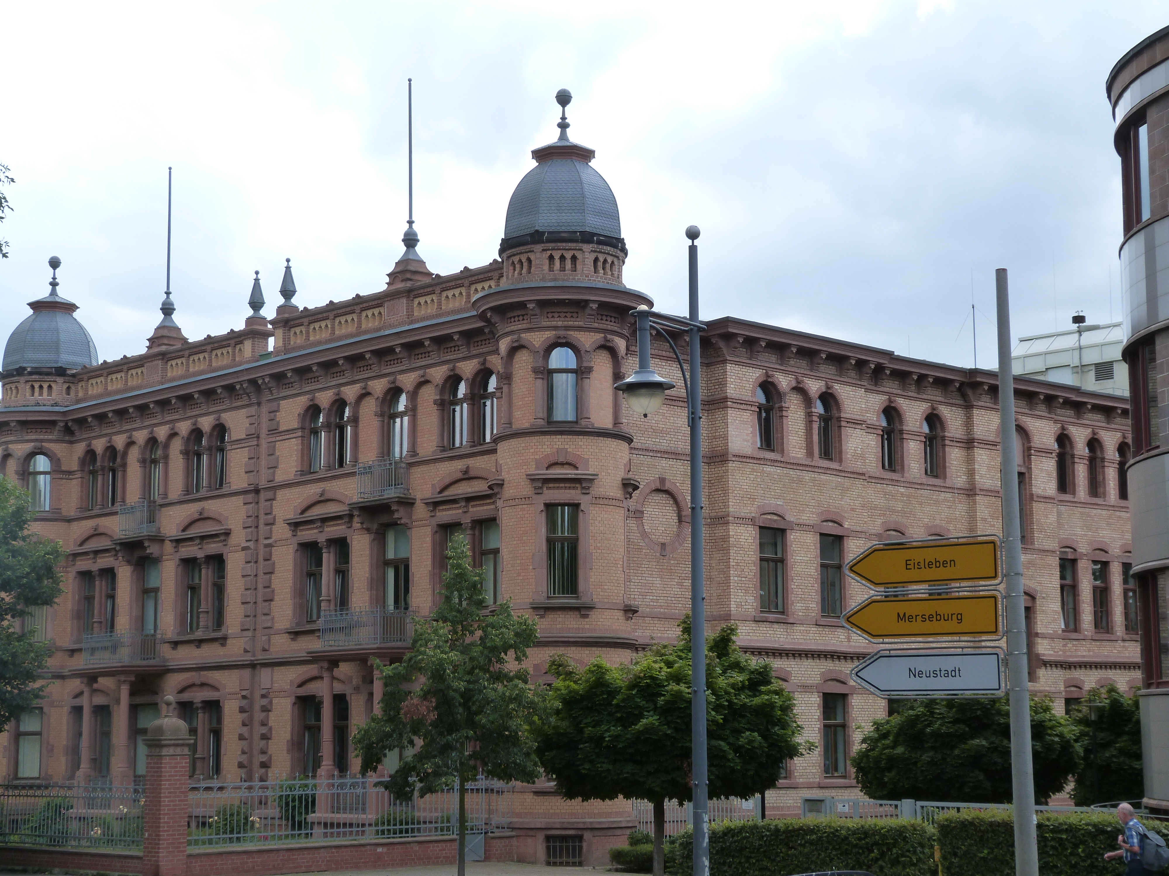 House No. 14/15, Robert-Franz-Ring, Halle (Saale)